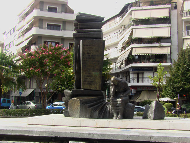 Larissa_Holocaust_memorial. Credit: Courtesy of Arie Darzi to memorialize the Jewish community in Greece.